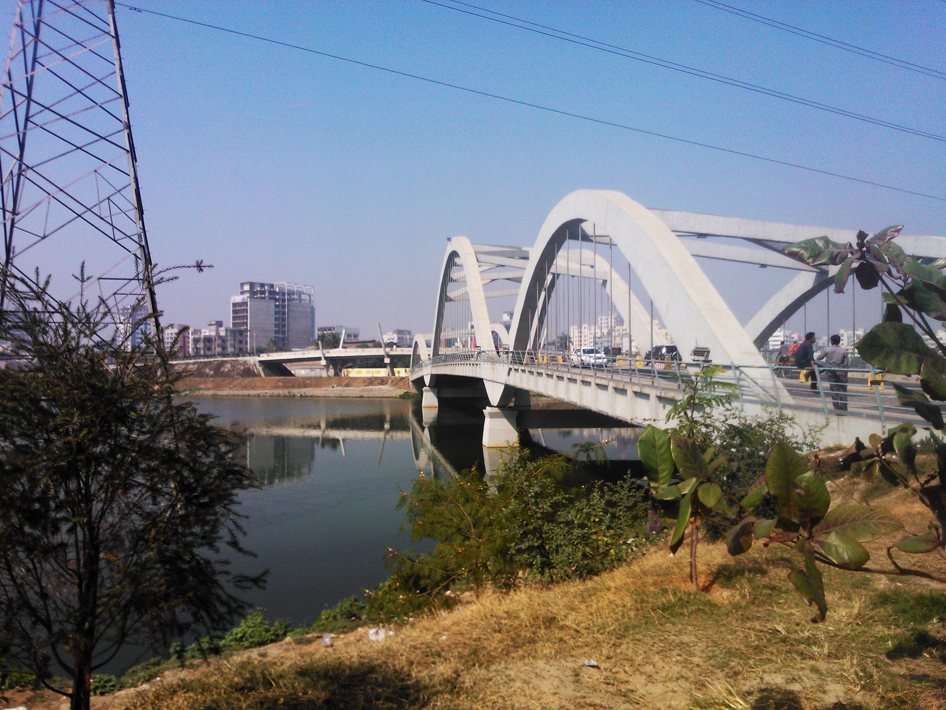 Hatirjheel, Dhaka, Bangladesh.